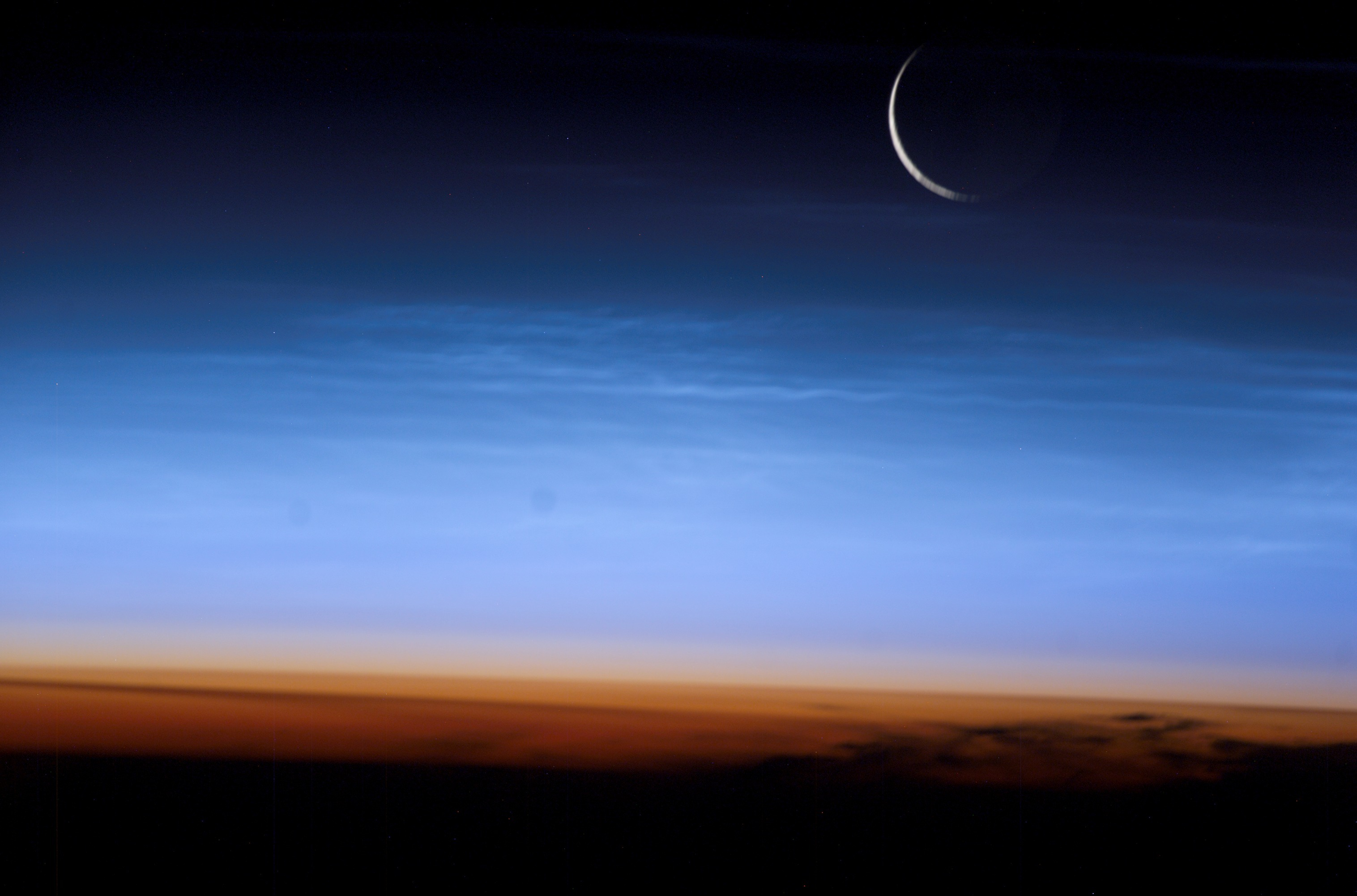 Taken from the International Space Station. Noctilucent clouds are very high clouds that look like cirrus clouds, but are much higher (75-90 km above the Earth’s surface) than clouds that we observe every day. They are optically thin and can only be observed during twilight hours, when the sun is just below the horizon and only shines on the uppermost atmosphere. In this image, the limb of the Earth at the bottom transitions into the orange-colored troposphere, the lowest and most dense portion of the Earth’s atmosphere. The troposphere ends abruptly at the tropopause, which appears in the image as the sharp boundary between the orange- and blue- colored atmosphere. The silvery-blue noctilucent clouds are far above this boundary. This image was when the ISS was over central Asia. June and July is the season for noctilucent clouds in the northern hemisphere—they form in the polar mesosphere, generally above 50 degrees latitude. Recent studies address why noctilucent clouds exist, whether the frequency of occurrence has increased throughout the 20th century (some researchers believe they have), and whether their frequency reflects human activities.